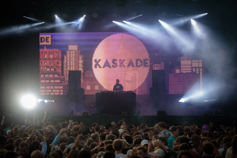 Kaskade at Stavernfestivalen. The concert was part of Stavernfestivalen and took place on 12. July 2018 in Stavern. Lineup:Kaskade (disc jockey)